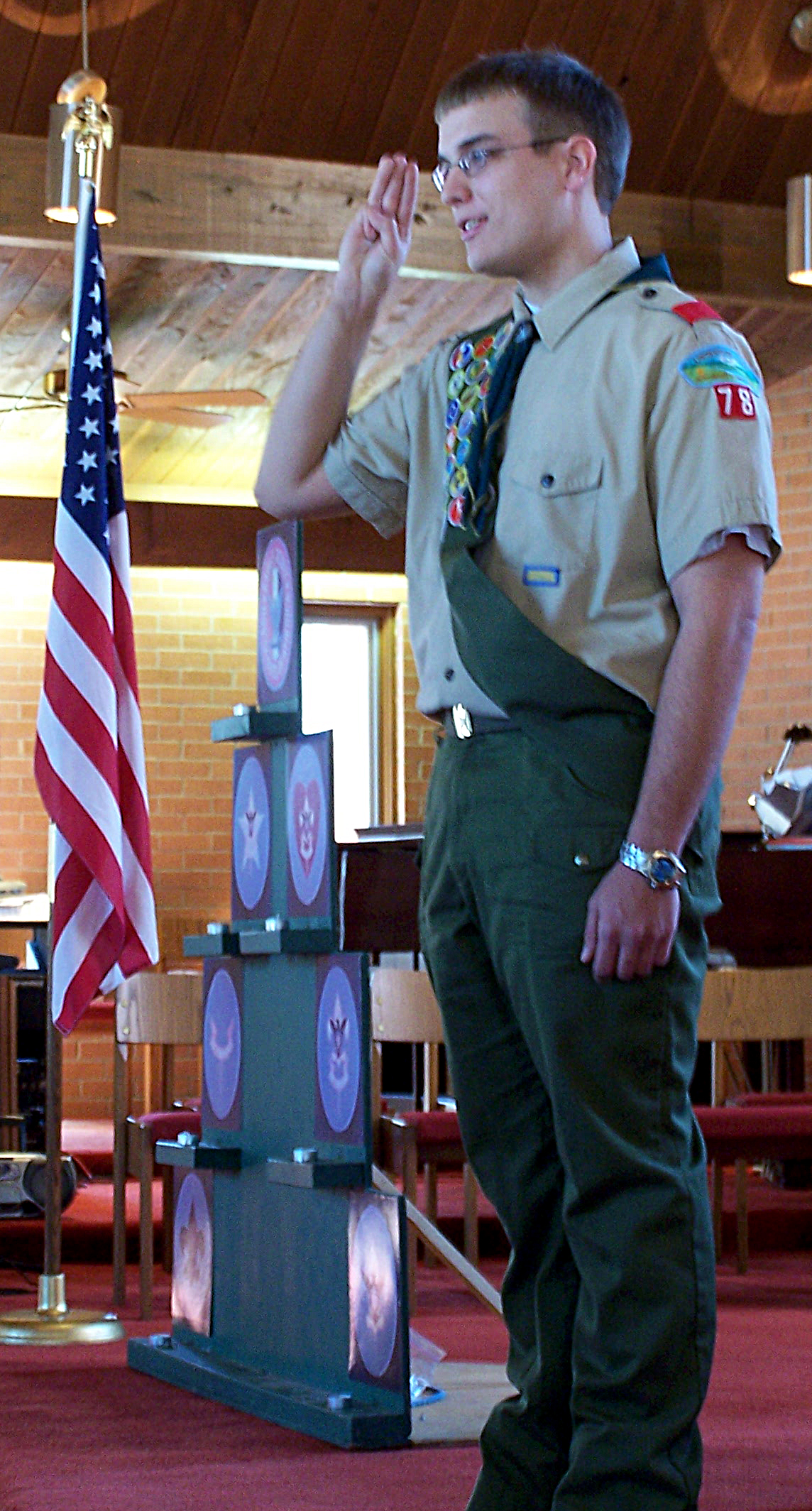 Me at my Eagle Court of Honor